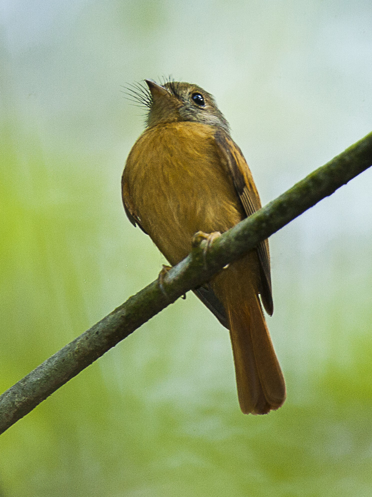 Ruddy-tailed Flycatcher - Panama_H8O2602 Terenotriccus erythrurus